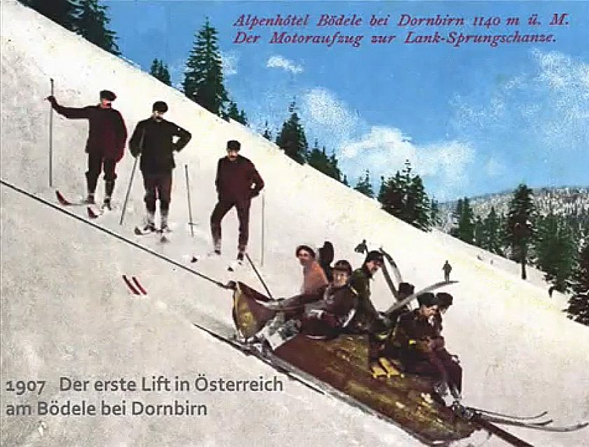 Motor hoist to the Lank-ski-jumpinghill at Bödele at Dornbirn / Schwarzenberg in Vorarlberg, Austria. Postcard from 1907 or 1908, handpainted. This motor hoist with slide for the ski jumpers is maybe the world's first mechanical climbing aid with motorcraft for winter sports.